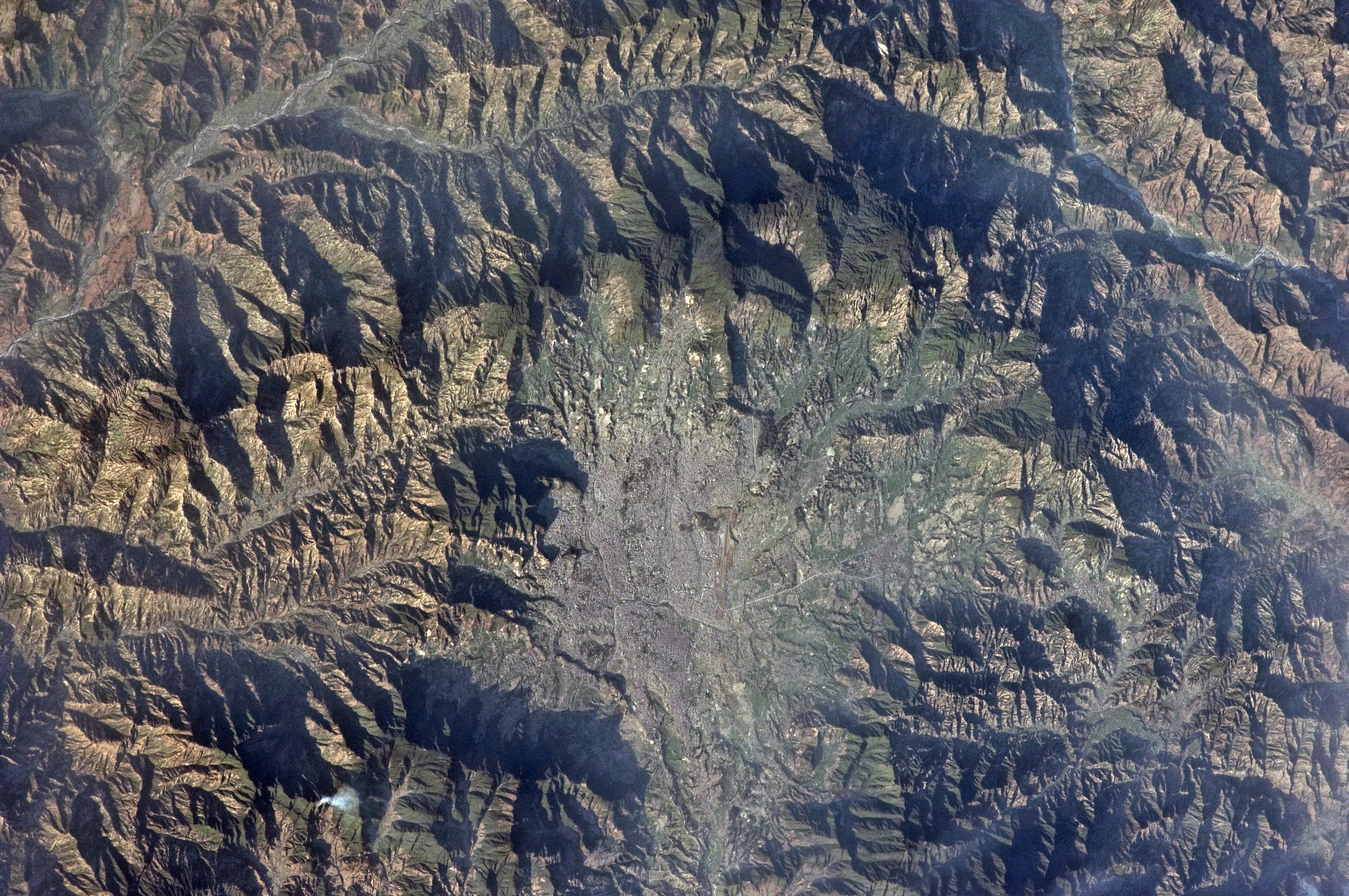 Astronaut Photo of Kathmandu, Nepal taken from the International Space Station (ISS) during Expedition 22 on March 7, 2010.